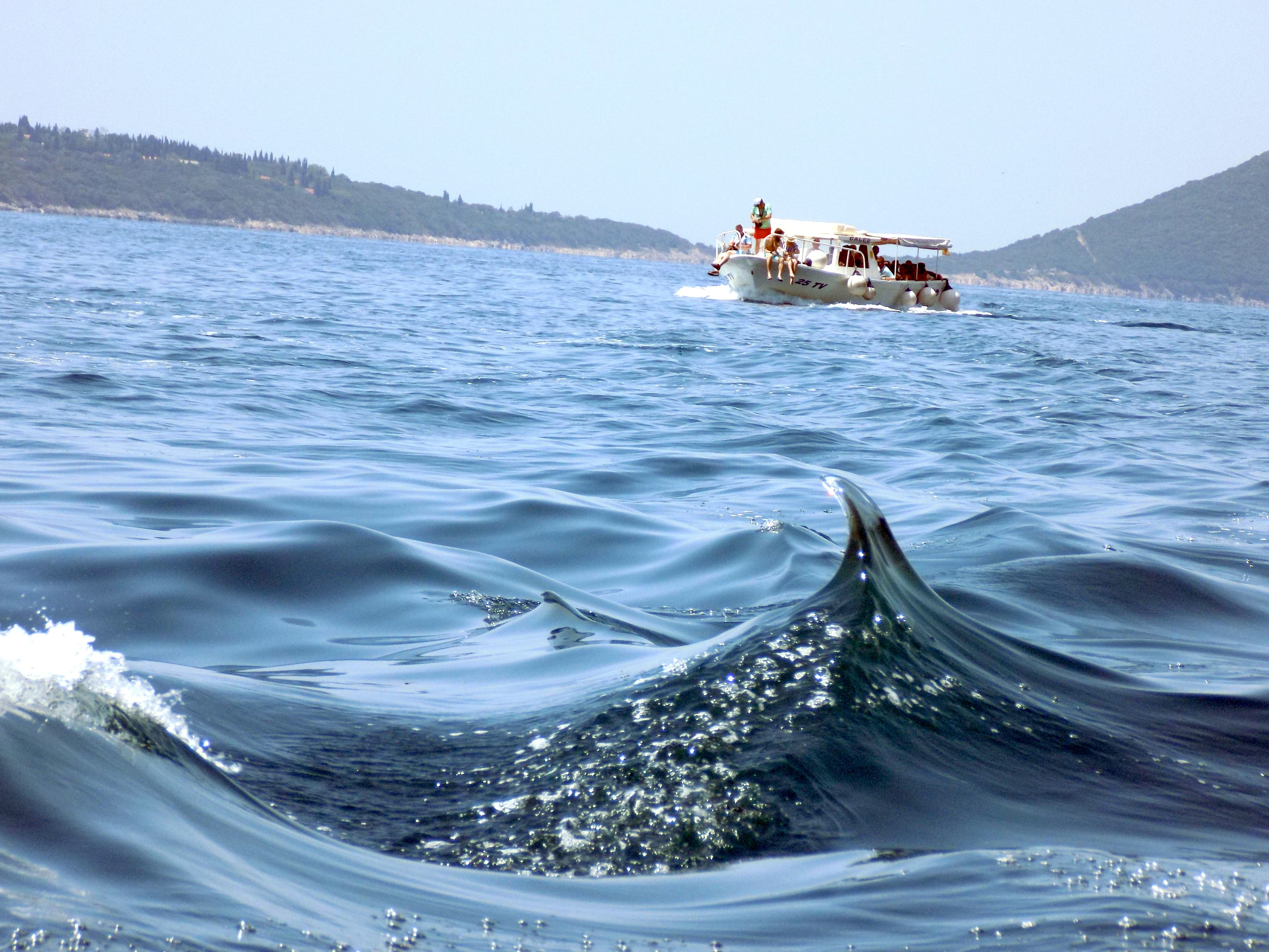 Cruise the Bay of Kotor